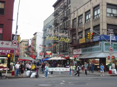 Little Italy, NYC (taken June 20, 2003 by See alsoFile:Chinatown-little-italy-manhattan-2004.jpg